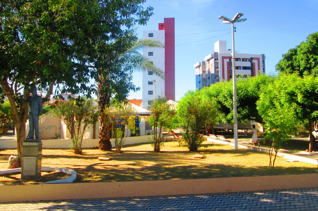 Praça em Caicó.